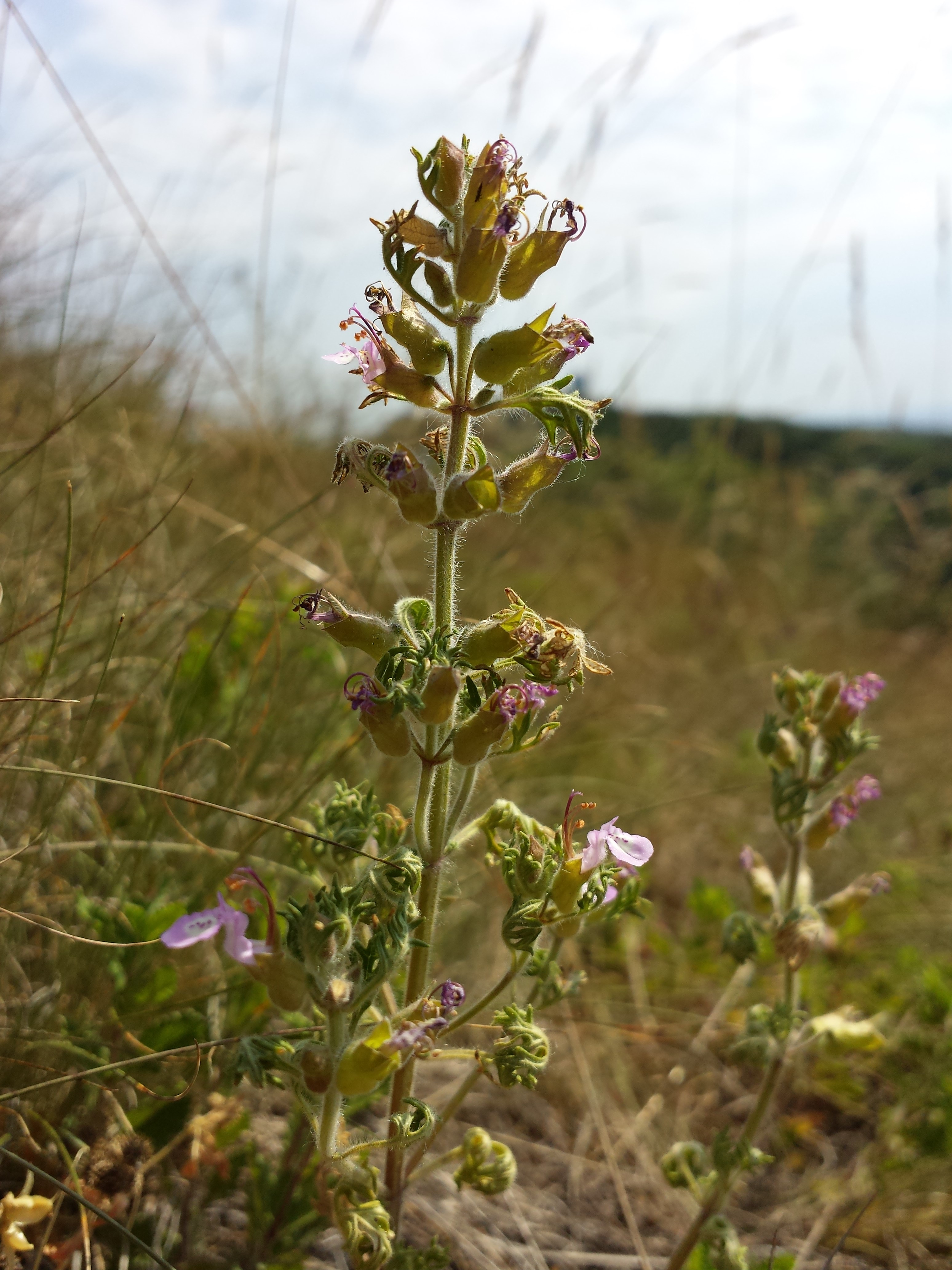 Habitus Taxon: Teucrium botrys (sensu Fischer et al. EfÖLS 2008 ISBN 978-3-85474-187-9) Location: Hausberg near Buschberg, Leiser Berge, district Mistelbach, Lower Austria - ca. 450 m a.s.l. Habitat: dry grassland on lime stone